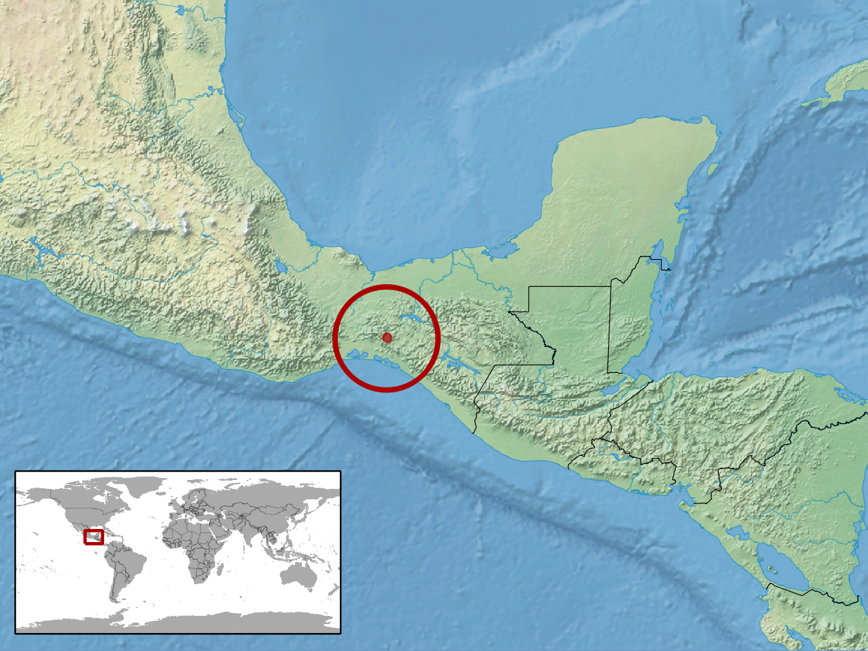 geographic distribution of Abronia ornelasi (Native: Mexico)